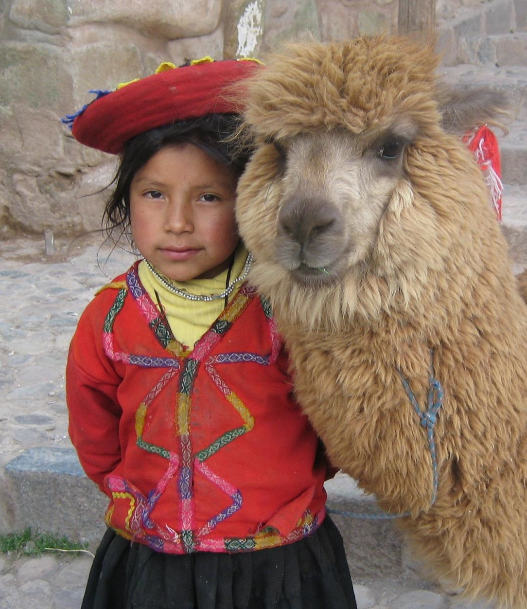 This photo is of a local Peruvian girl posing with her alpaca near the Plaza de Armas in Cusco. I gave her two soles for letting me take her picture.